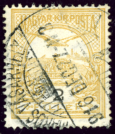 Hungarian stamp issue 1913, 2 fillér, yellow (SG173), cancelled Maros Vasarrely, Transylvania (Romania) in 1916. Michel N°110.